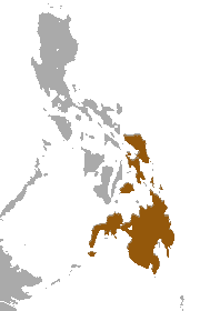 Philippine Flying Lemur (Cynocephalus volans) range